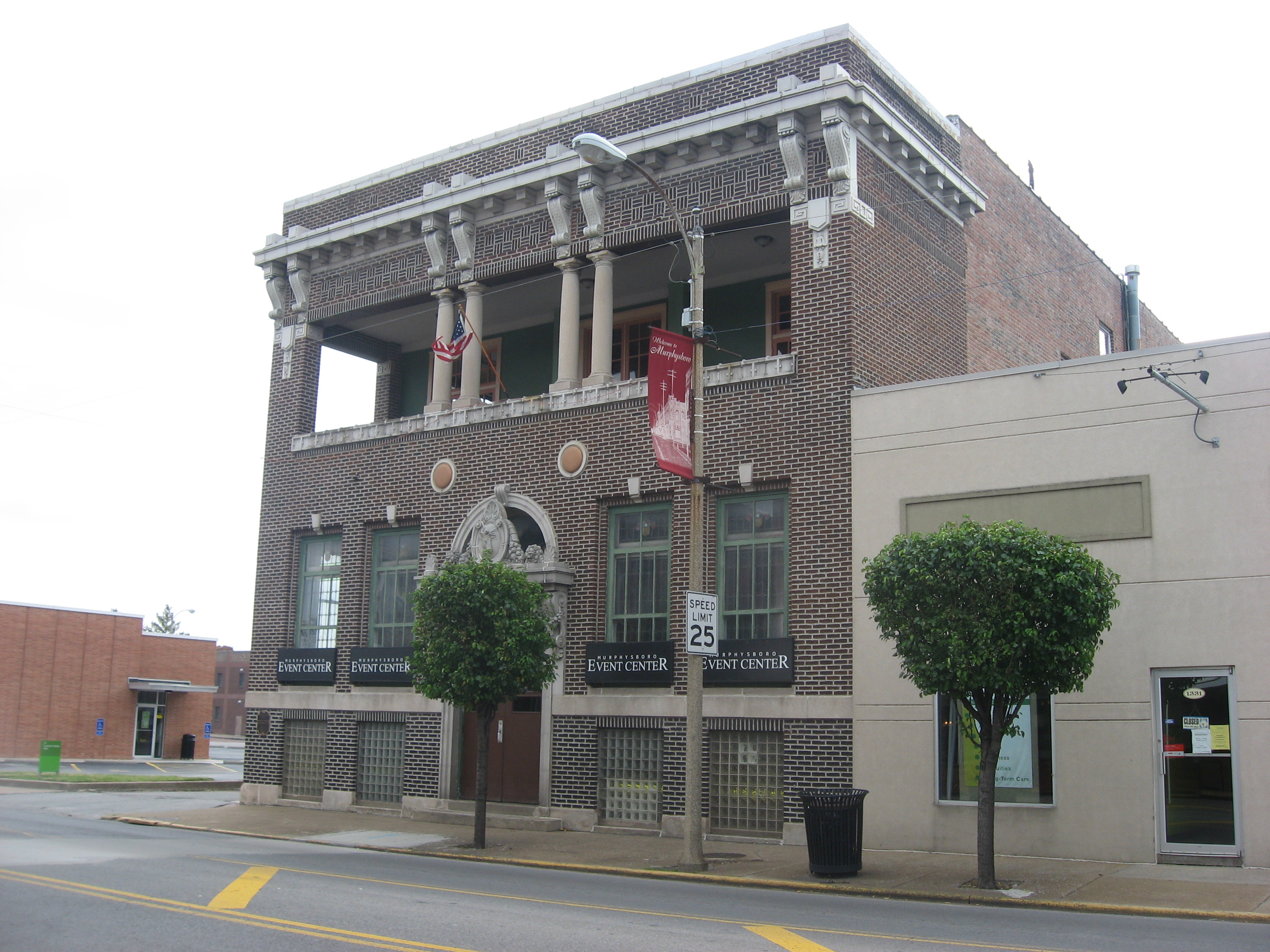 Front and western side of the Murphysboro Elks Lodge, located at 1329 Walnut Street (Illinois Route 149) in Murphysboro, Illinois, United States. Built in 1916, it is listed on the National Register of Historic Places.